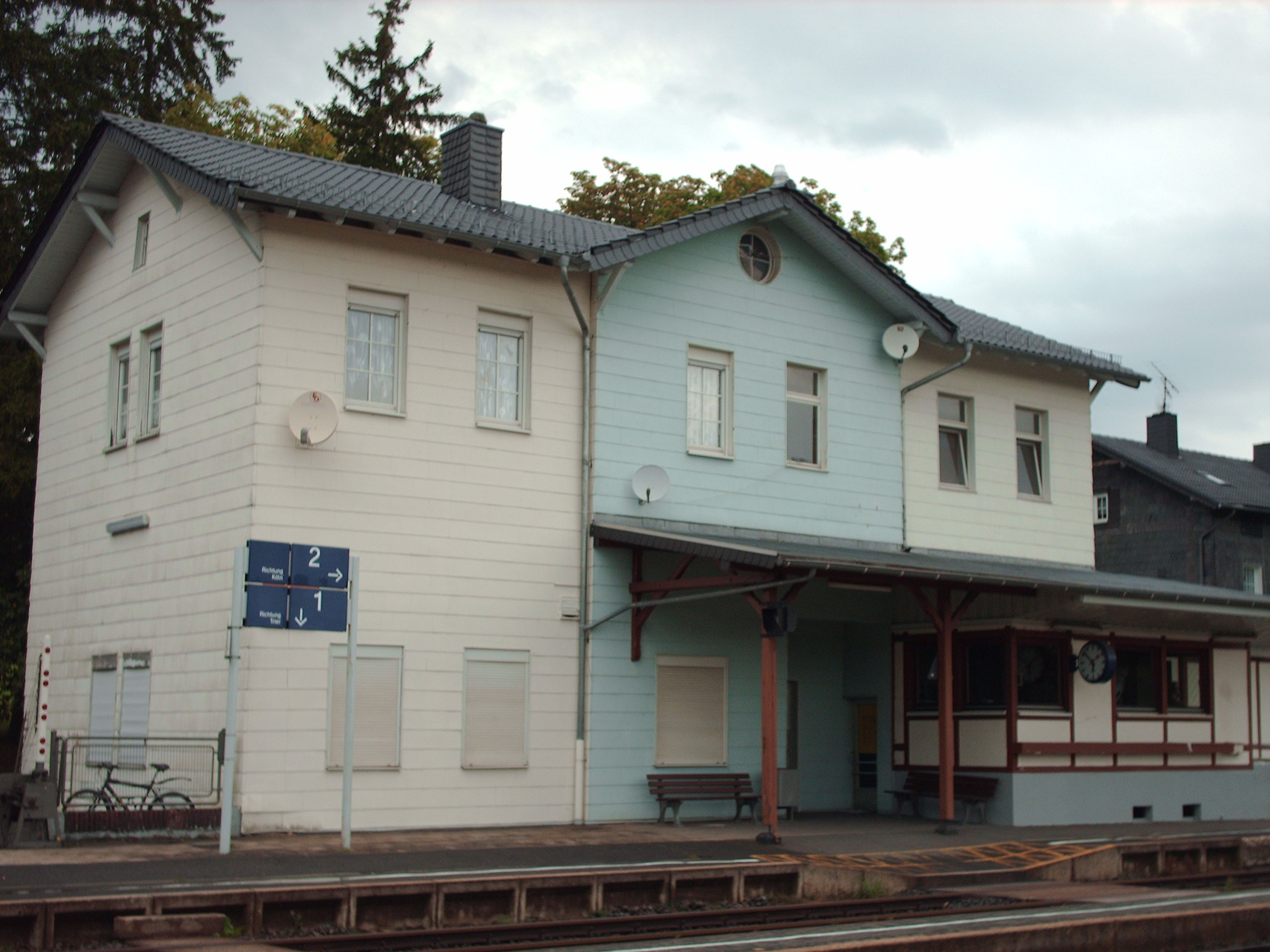 Schmidtheim station, Dahlem, Germany check usage